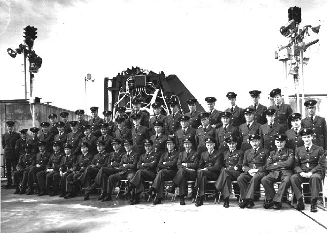 RAF No. 218(SM) Squadron group photo, taken at Vandenburg AFB, California